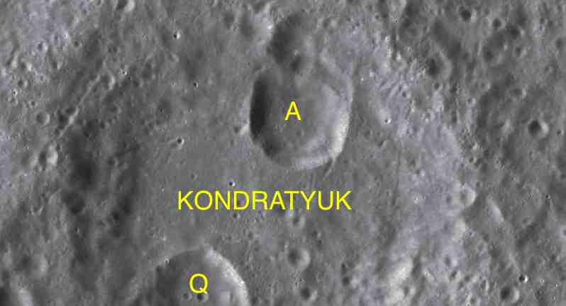 Part of the chart LAC-83 used for the presentation